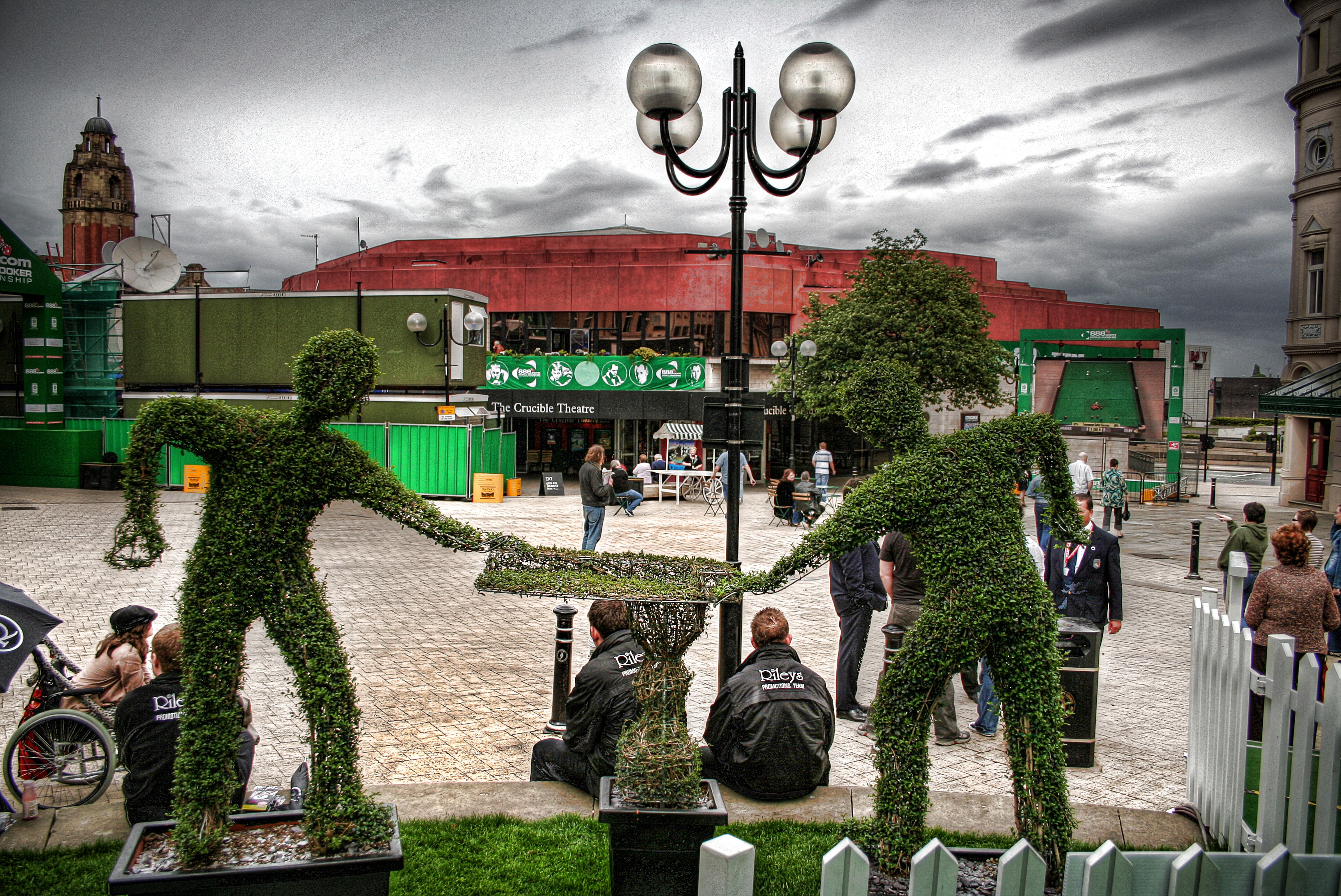 Crucible Theater in Sheffield